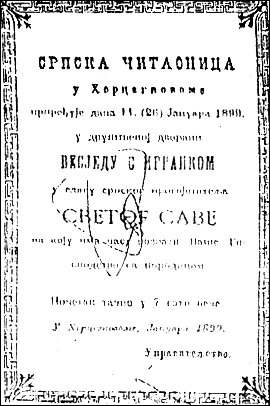 Serbian library Kotor